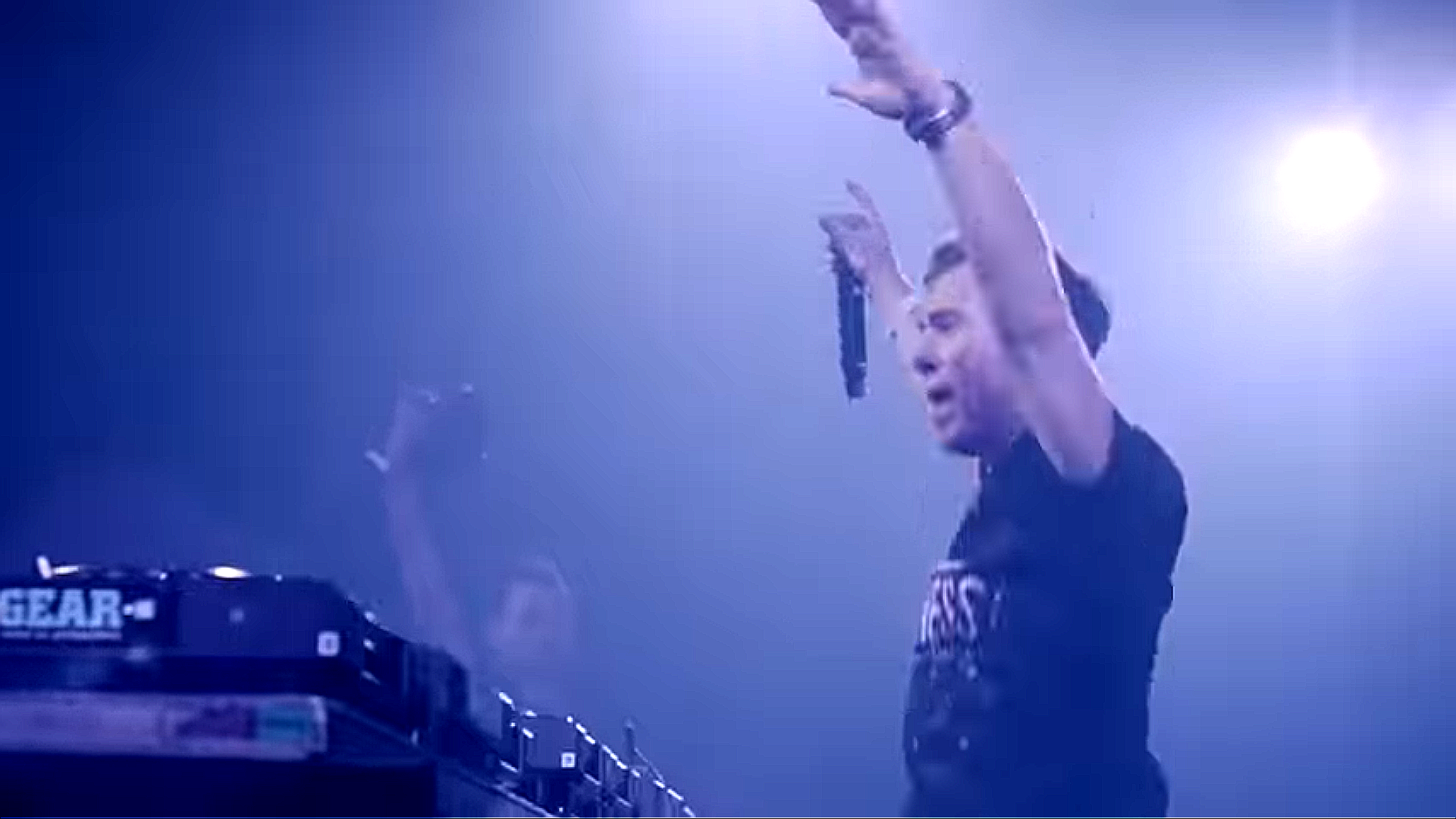 Hardwell as a part of the Mysteryland 2018 promo video.